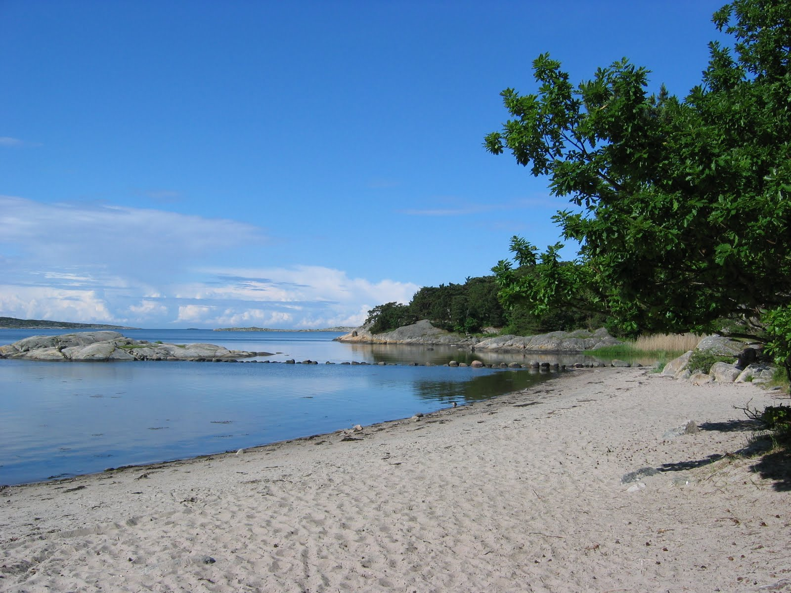 A beach in the Särö Västerskog nature reserve in western Sweden.